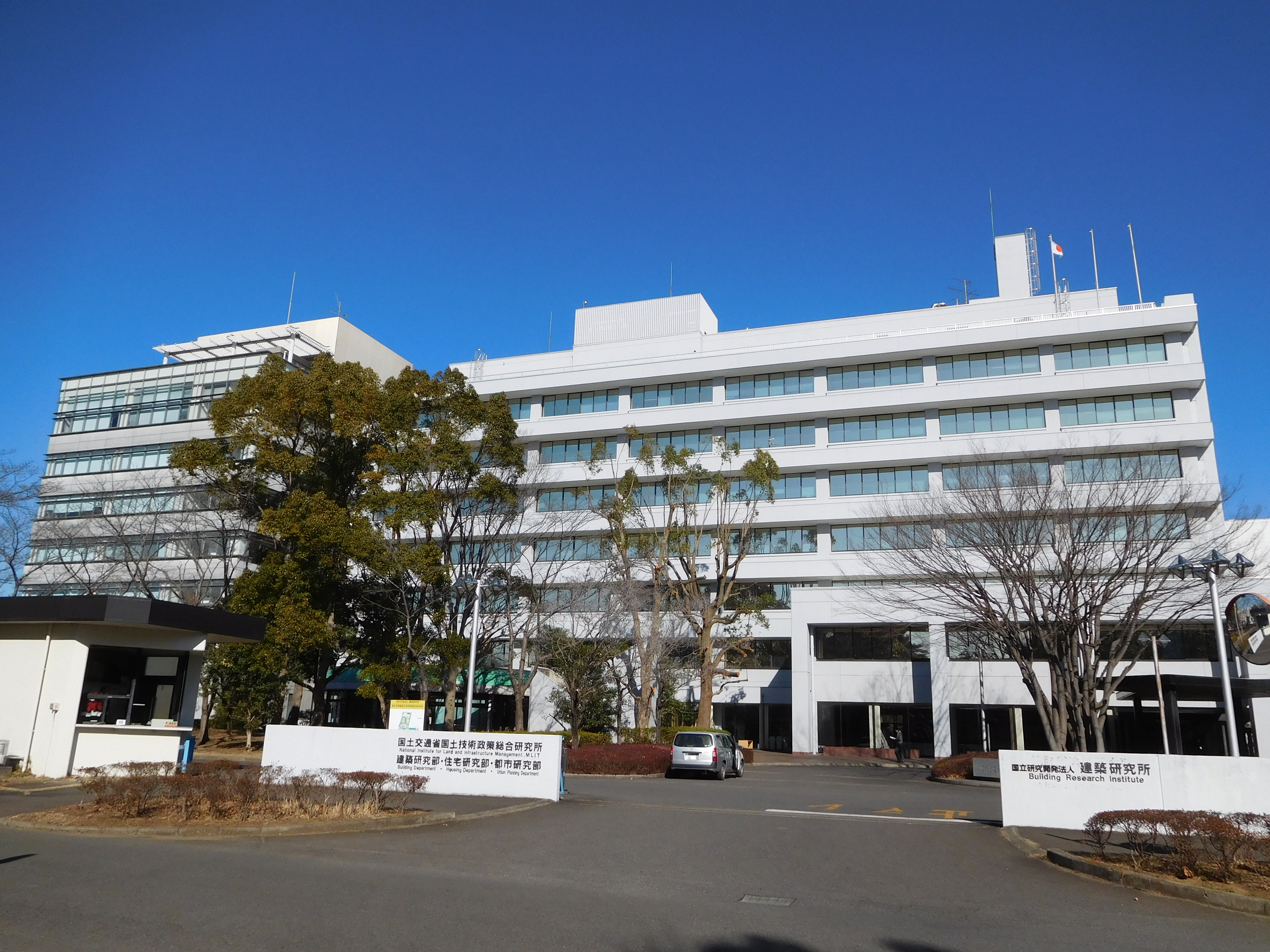 This is the building of Building Research Institute, which is located Tsukuba, Ibaraki, Japan.